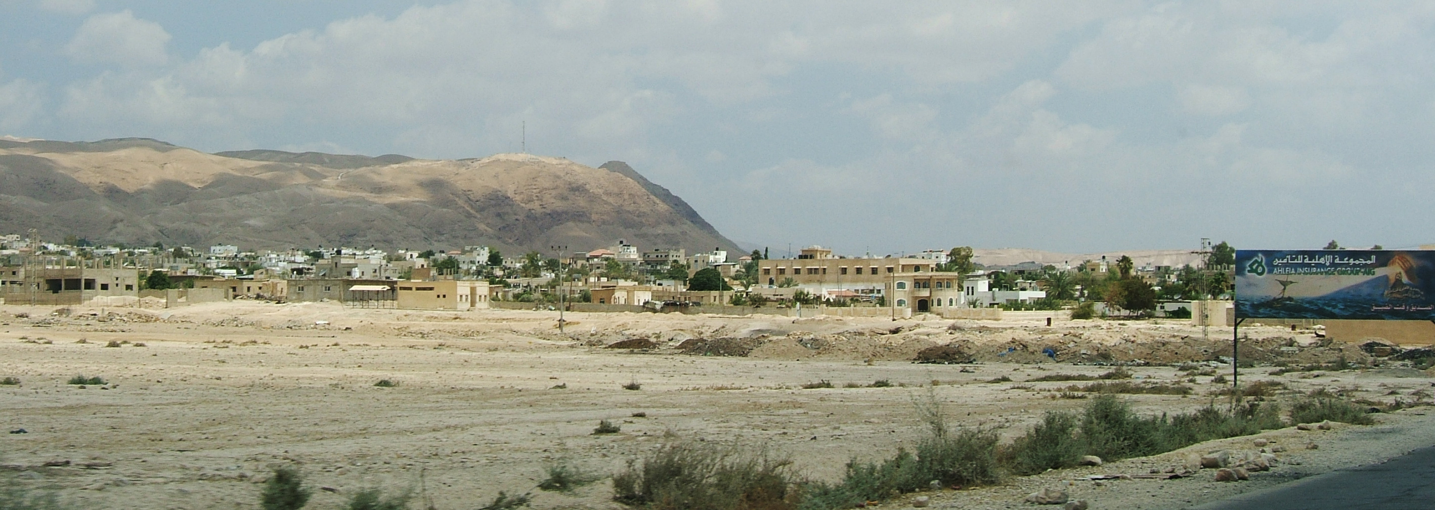 2005, coming into Jericho from the South. Photo taken by Bantosh (myself).